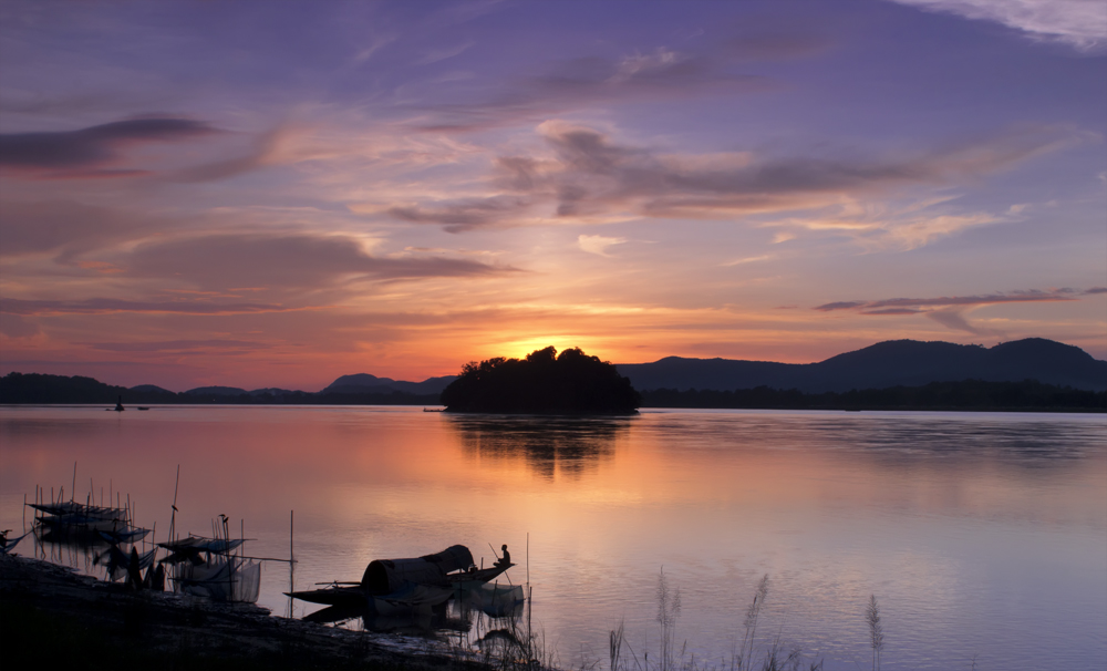 Umananda Island (from Assamese উমআ, Uma, another name for the Hindu goddess Parvati, the wife of Shiva; and আণআণডআ, ananda, "happiness") is the smallest river island in the midst of river Brahmaputra flowing through the city of Guwahati in Assam, a state in northeast India. The British named the island Peacock Island for its shape. Source : Wiki